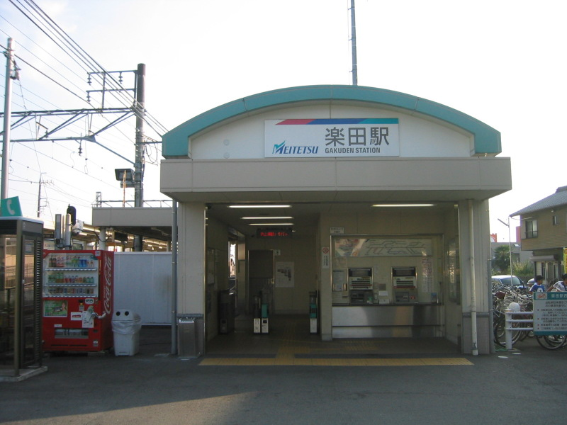 Meitetsu Gakuden station